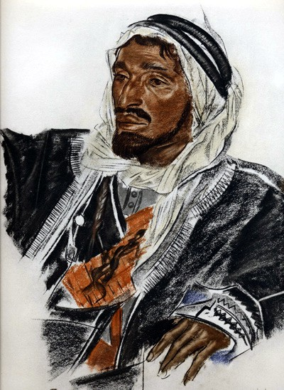 Sheikh Sattam de Haddadin of Palmyra by Russian painter Alexandre Evgenevich Iacovleff, born in 1887 in St-Petersburg. The artist of the "Citroen Centre Asie, La Croisiere jaune sur la route de la Soie" in 1931. The expedition started from Beirut throught Palmyra then ended in China.